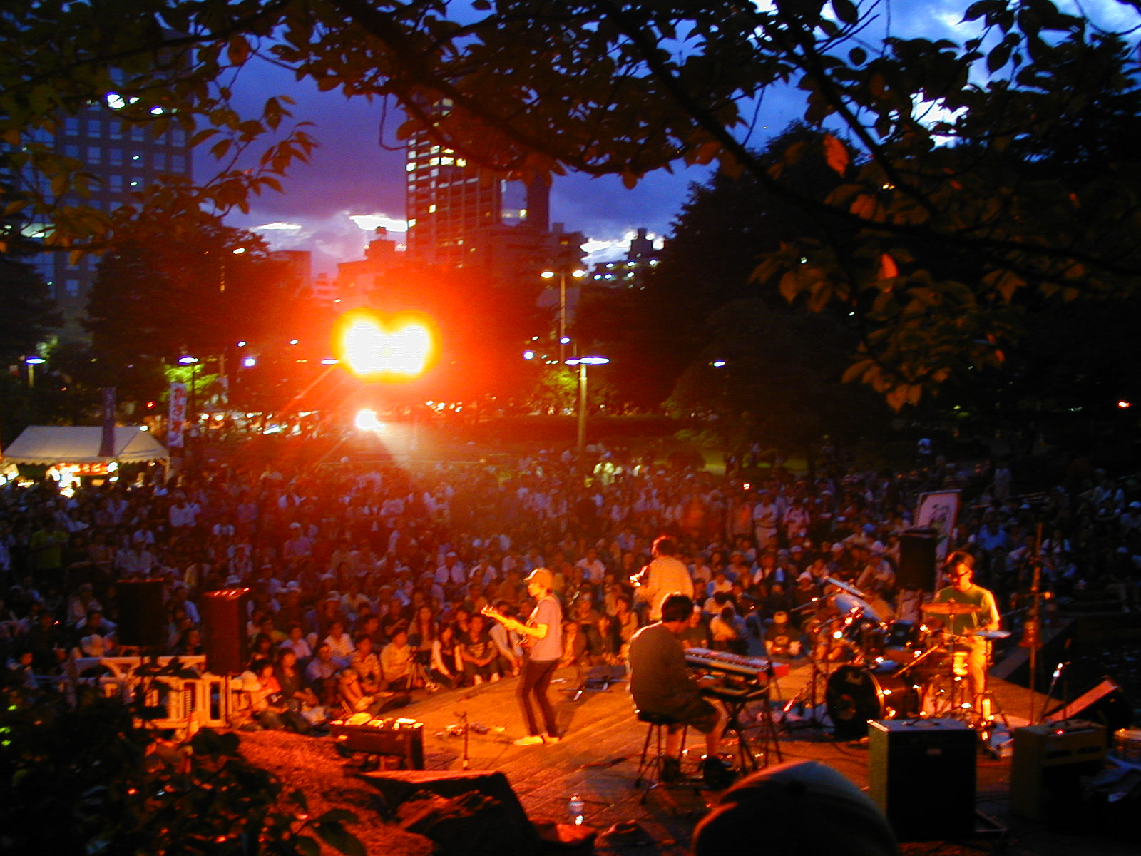 "Jozenji Streetjazz Festival in SENDAI". Kotodai-Koen Park